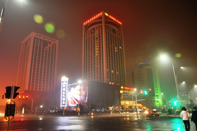 Huayu Square at night — in Maanshan, Anhui, China